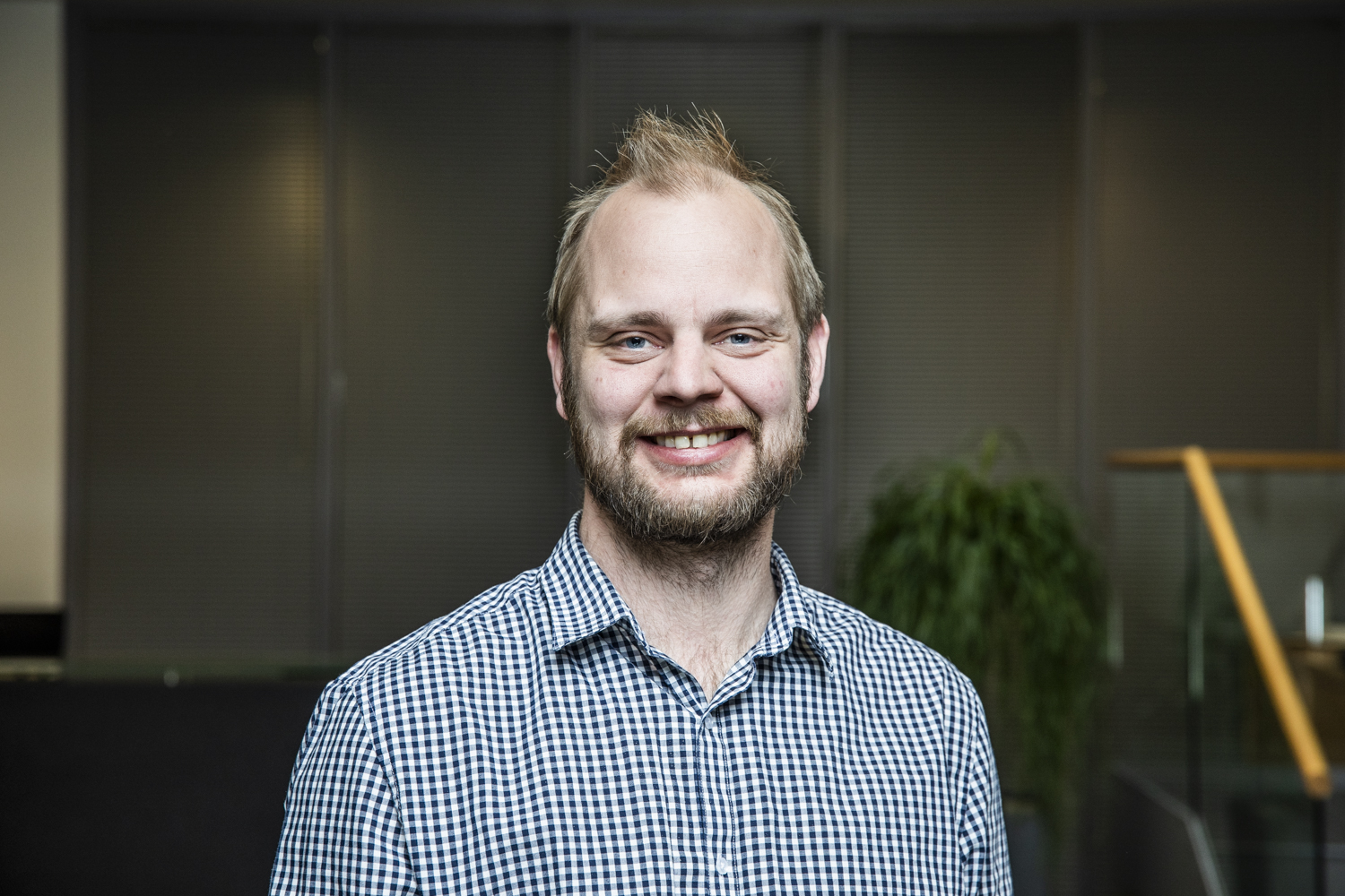 Norwegian politician, journalist and author Mímir Kristjánsson in 2019.